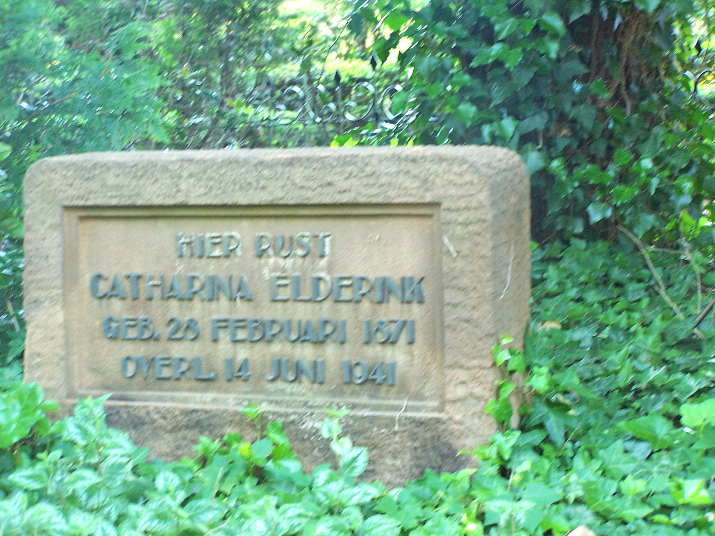 Grave of writer Catharina 'Cato' Elderink on the Oosterbegraafplaats, a cemetary in Enschede